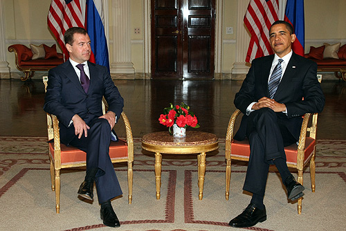 LONDON. With President of the United States Barack Obama.